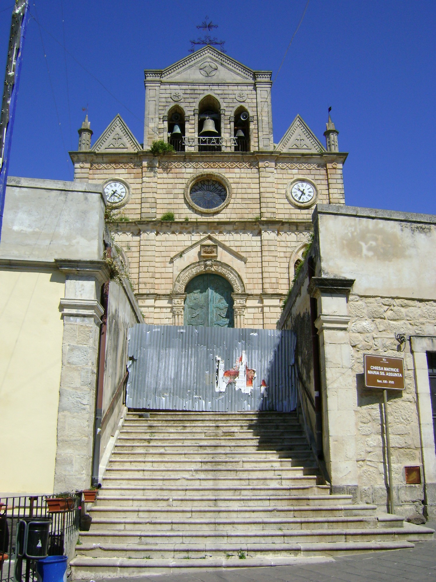 The church of Santa Maria Assunta, Monterosso Almo, province of Ragusa